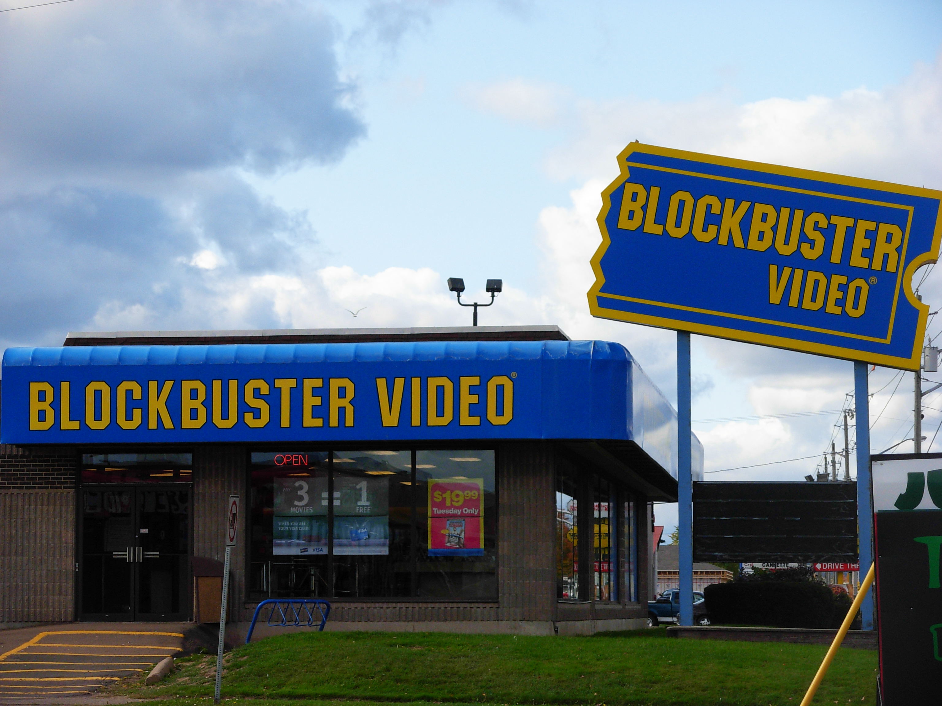 A Blockbuster location in Moncton